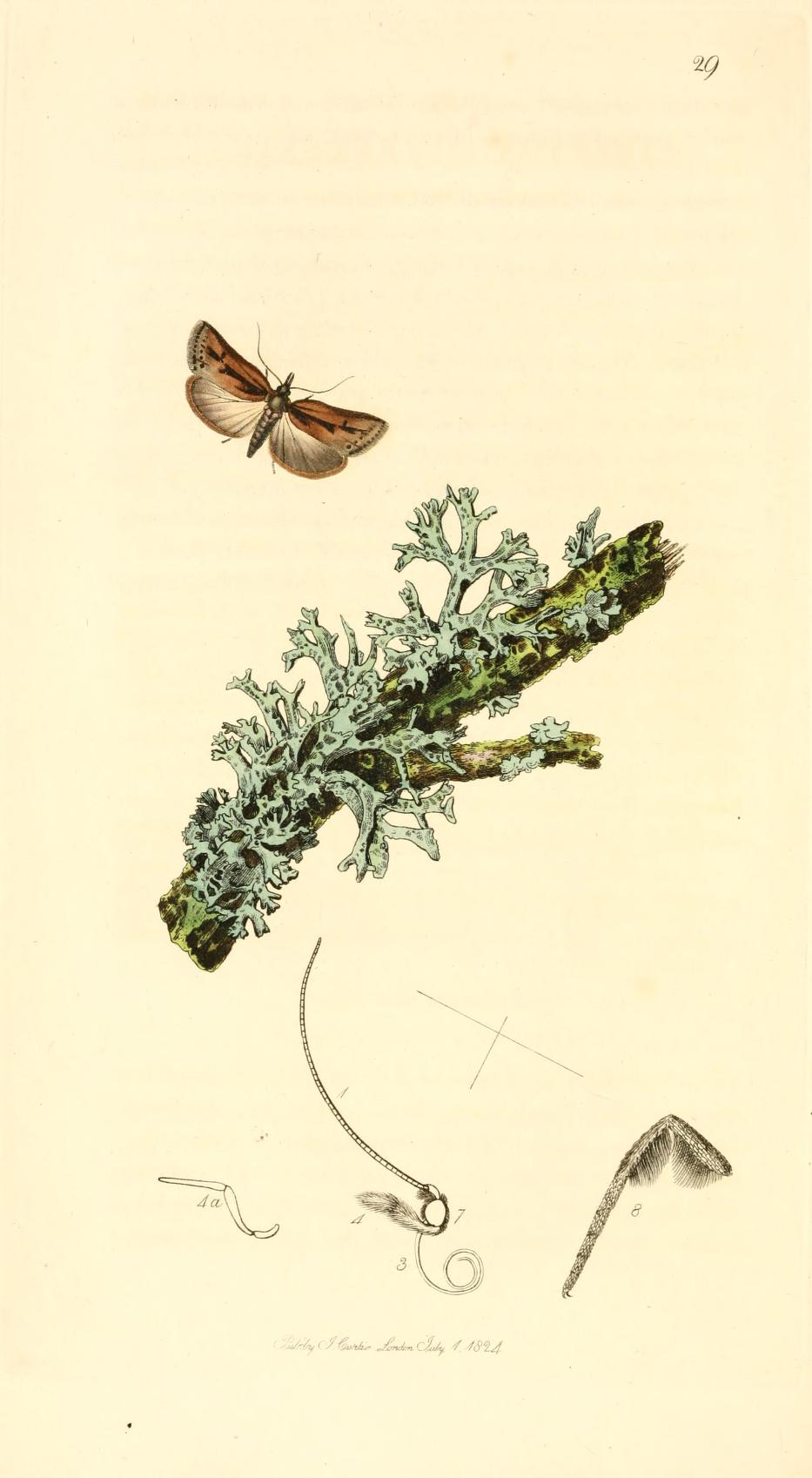 An illustration from British Entomology by John Curtis. name Lepidoptera: Sarrothripus ramosanus or Nycteola revayana, var. ramosana (Oak Nycteoline).